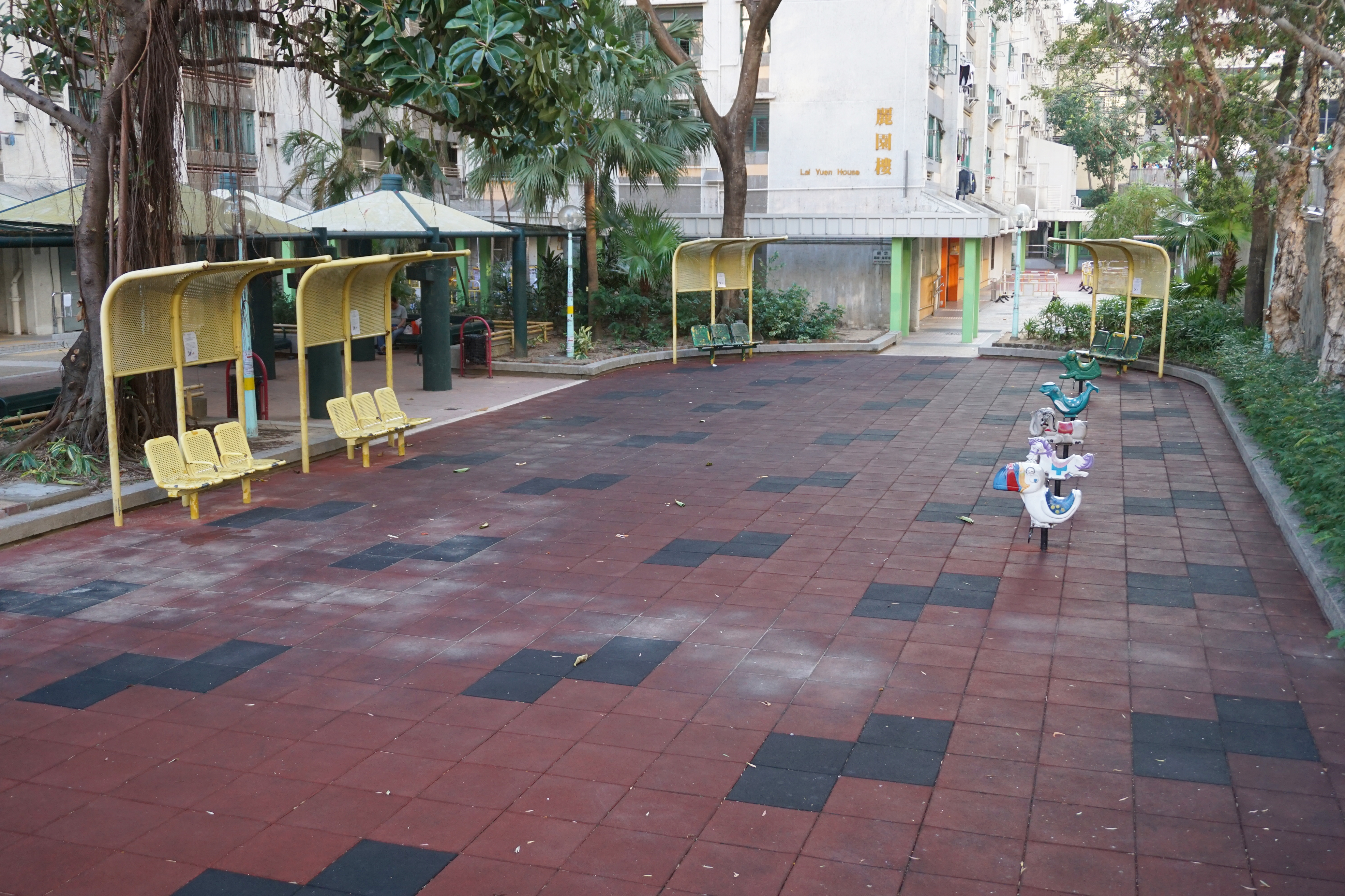 Chuk Yuen South Estate in Wong Tai Sin, Hong Kong.